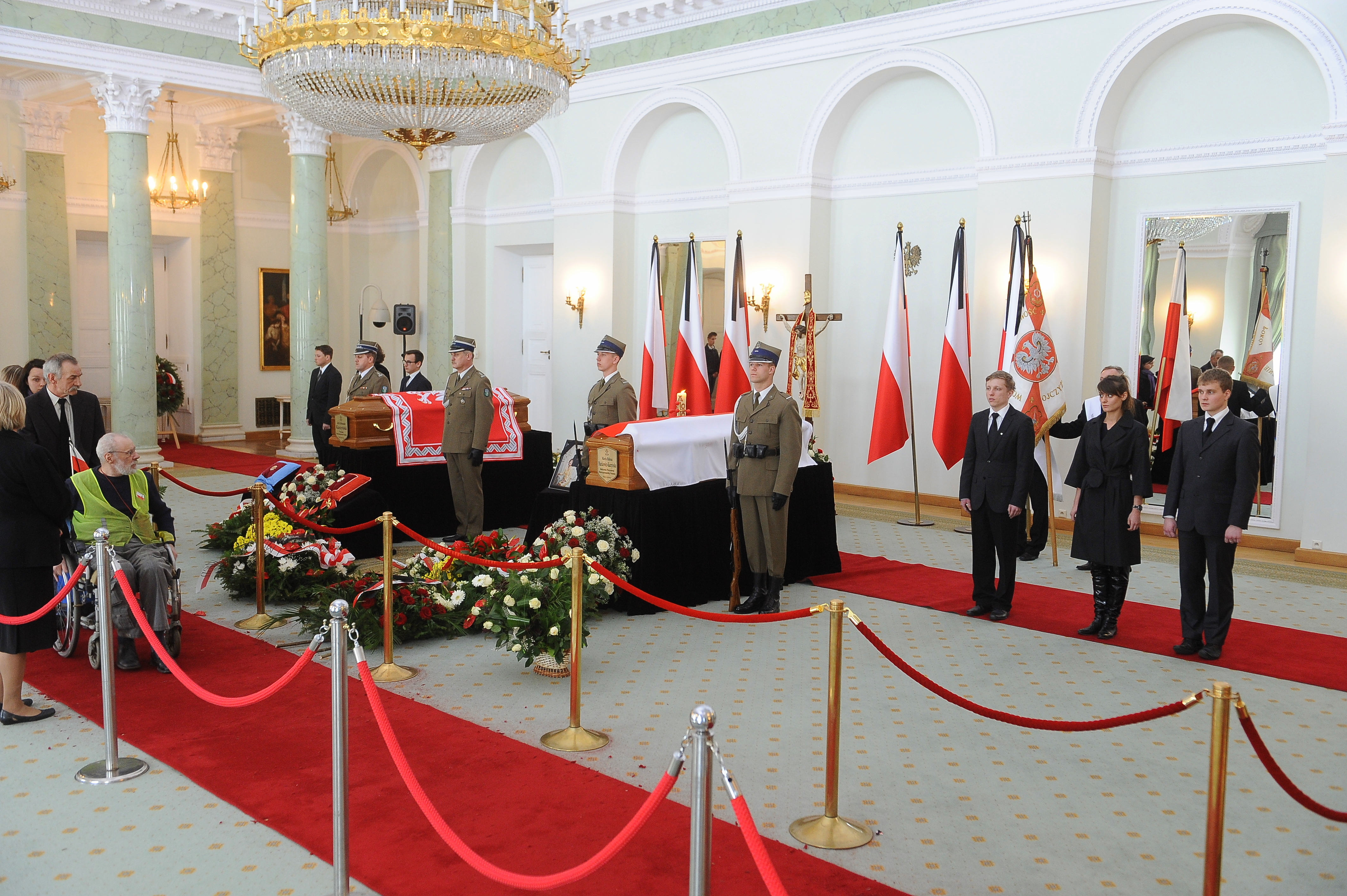 Coffins of President Lech Kaczyński and Maria Kaczyńska in the Presidential Palace in Warsaw.